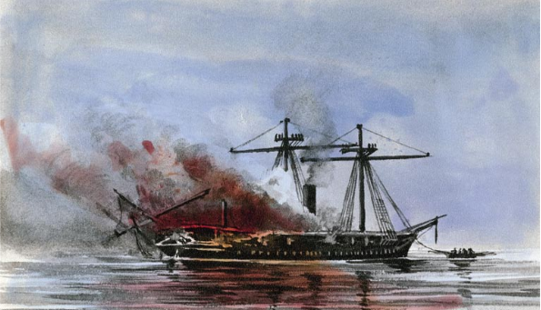 Destrucción de la Unión por los peruanos para evitar que cayese en manos de los chilenos.